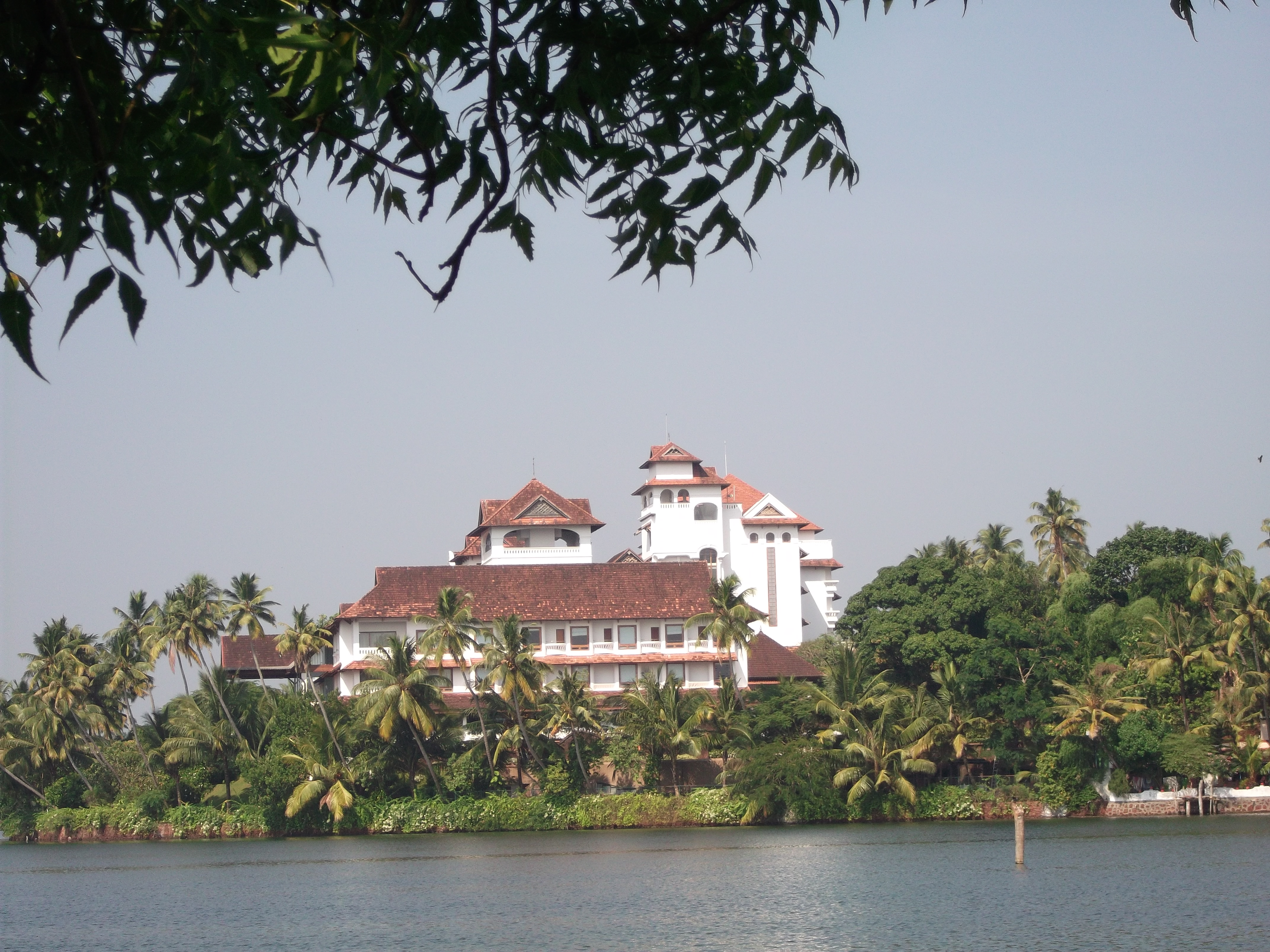 A picture of Hotel Raviz, Kollam